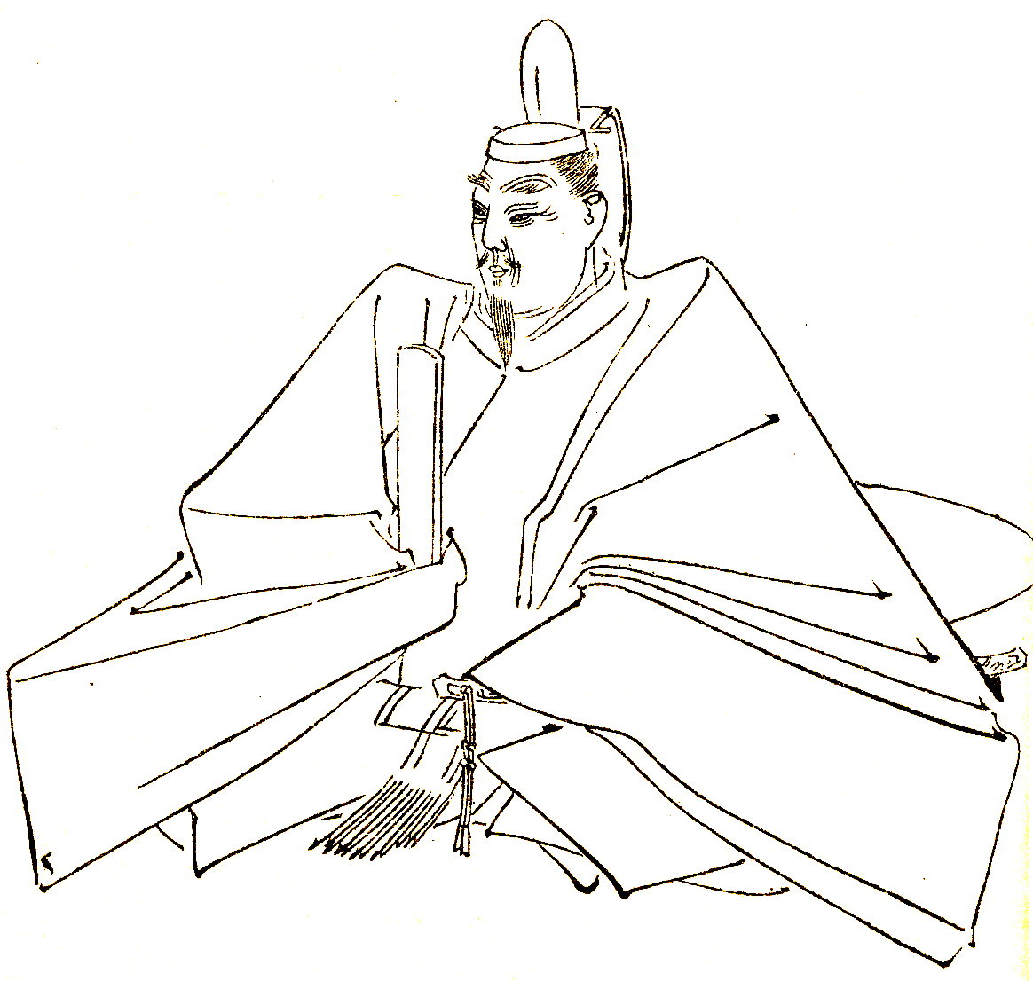 Taira no Norimori（平教盛）was one of the Taira Clan's chief commanders during the Heian period of the 12th century of Japan.This picture was drawn by Kikuchi Yosai（菊池容斎） who was a painter in Japan.